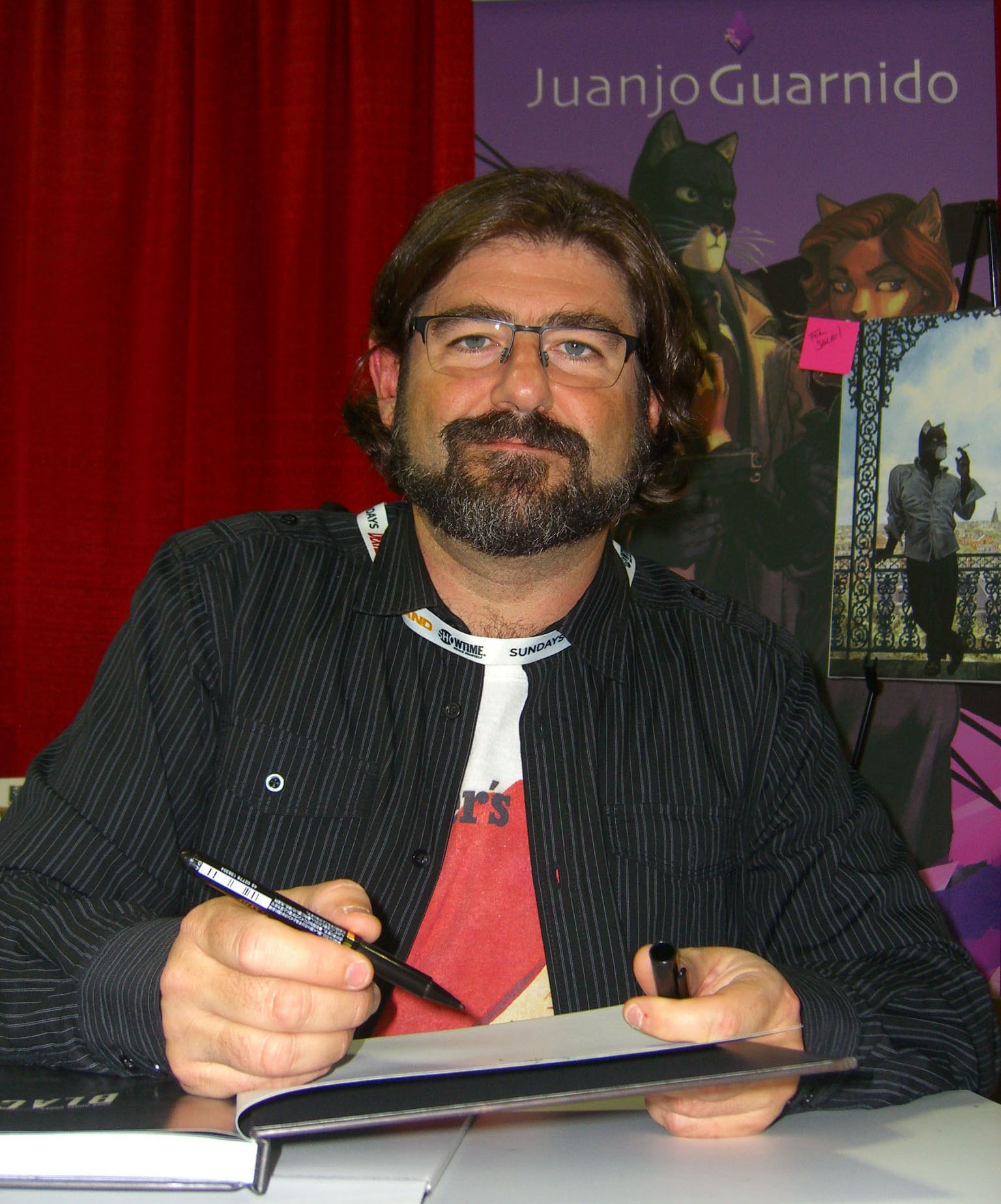 Comics creator Juanjo Guarnido on Day 2 of the 2012 New York Comic Con, Friday October 12, 2012 at the Jacob K. Javits Convention Center in Manhattan. This photo was created by Luigi Novi. It is not in the public domain, and use of this file outside of the licensing terms is a copyright violation.